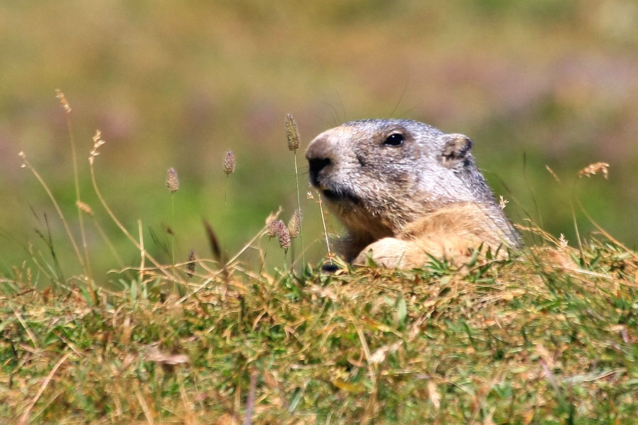 Marmota in the Gran Paradiso National Park, Italy